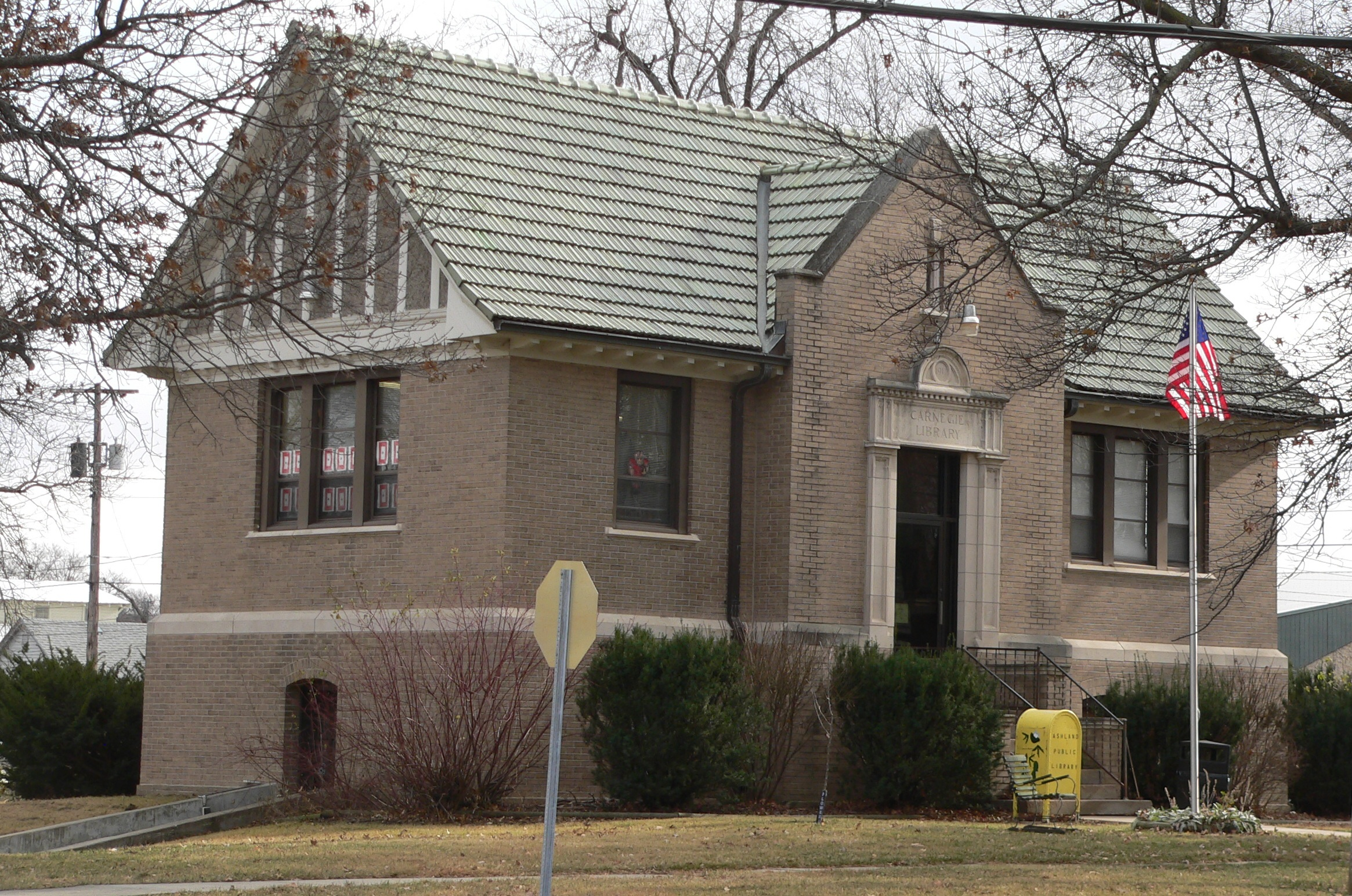 Ashland Public Library at 207 N. 15th St., Ashland, Nebraska; seen from the northwest. The Carnegie library was designed in the Jacobethan revival style and built in 1911. It is still in use as Ashland's library. The building is listed in the National Register of Historic Places.